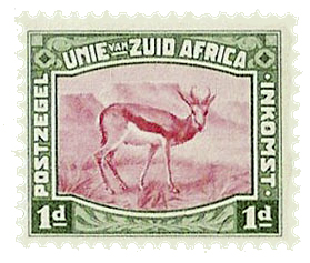 Postage stamp, South Africa, 1923: The springbok. Essay stamp, was never officially released.